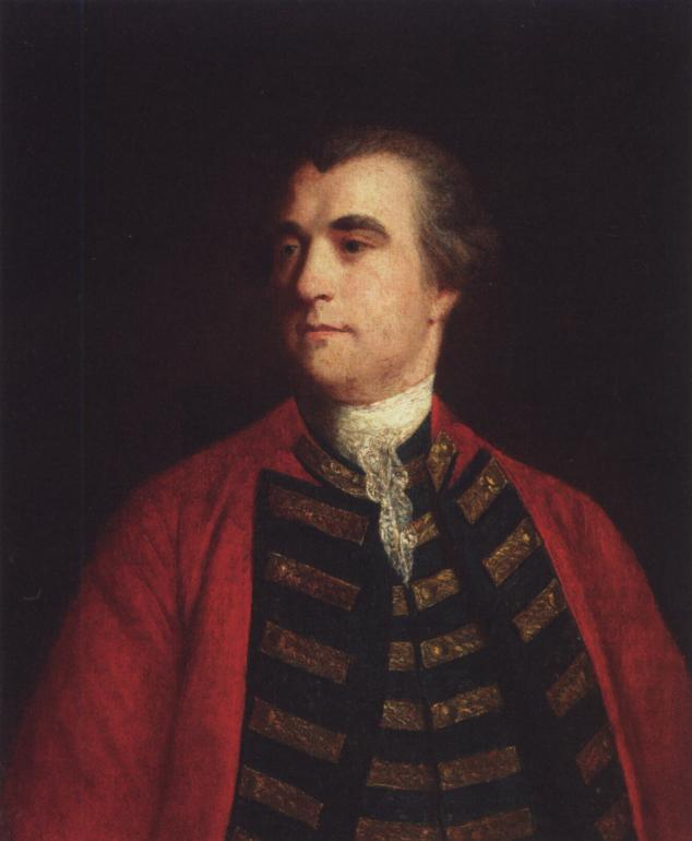 Portrait of British Colonel Cyrus Trapaud (18 August 1715 – 3 May 1801), half-length, in uniform, by Sir Joshua Reynolds.